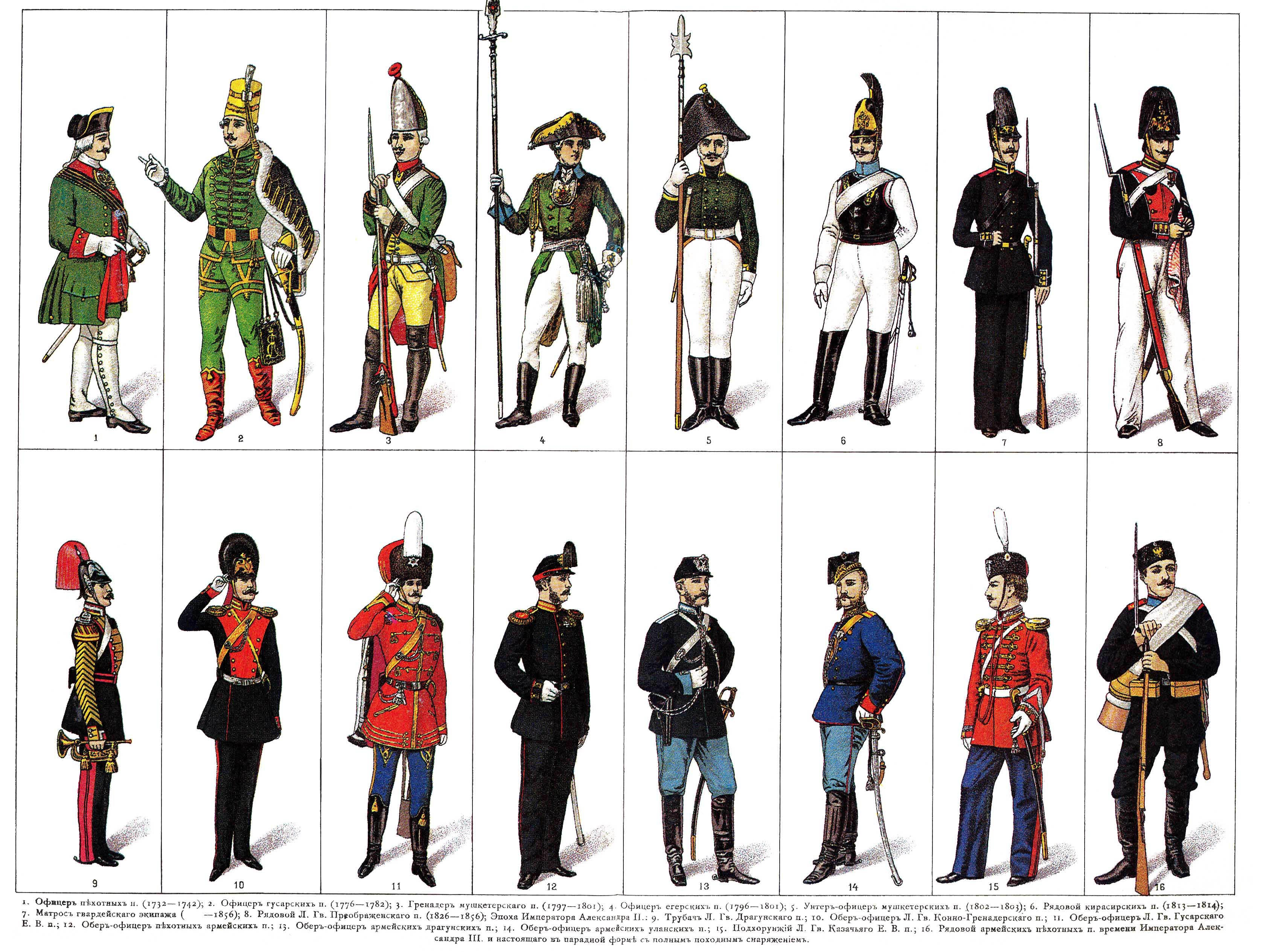 Illustration from Brockhaus and Efron Encyclopedic Dictionary (1890—1907)